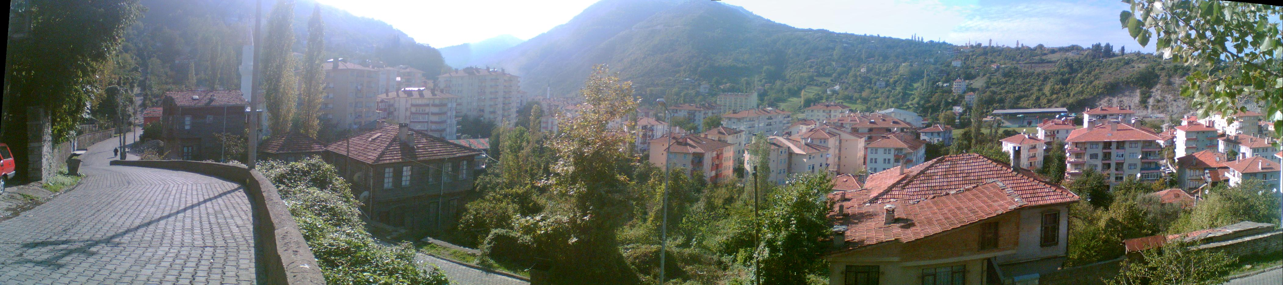 View of Inebolu-2